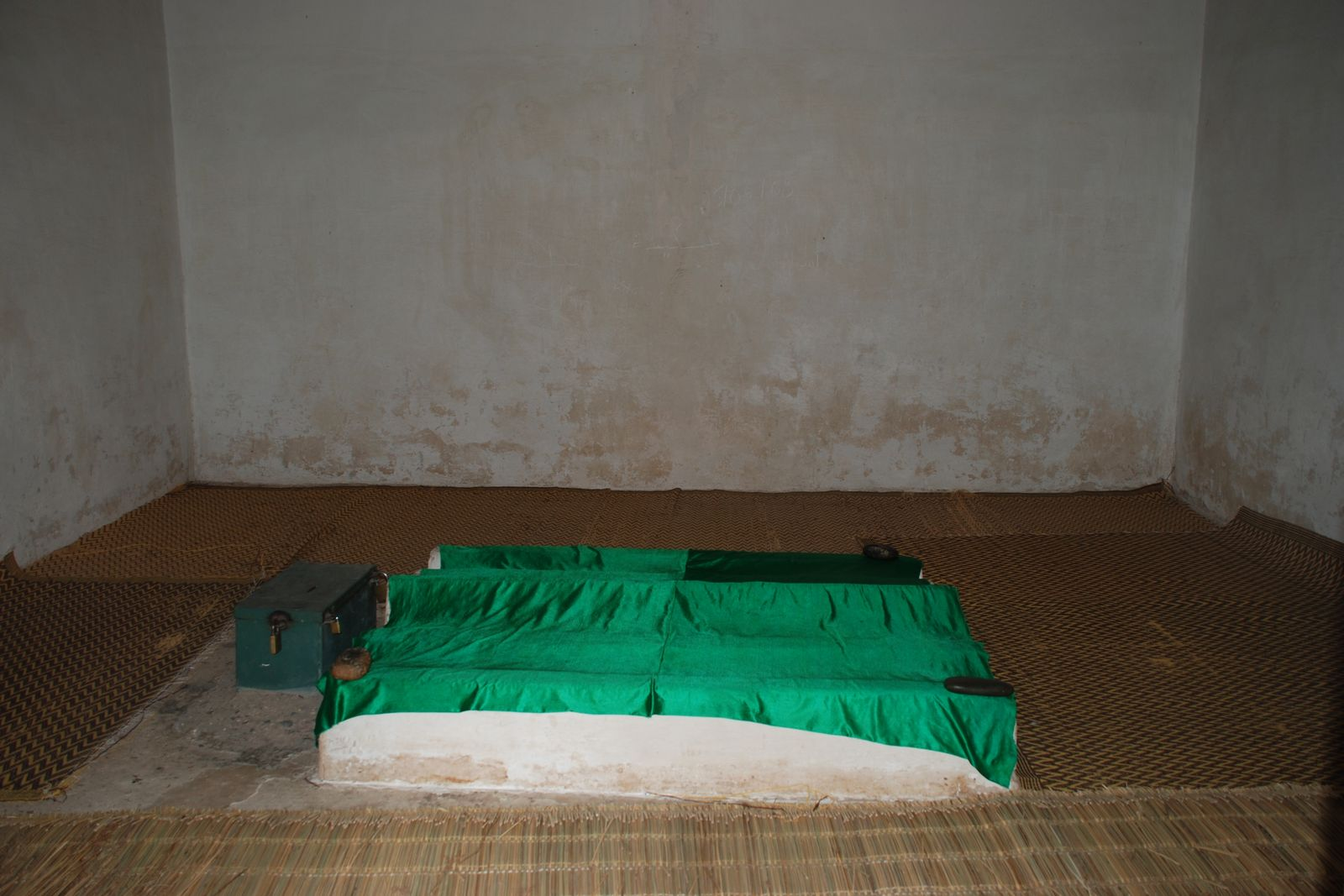 Lalla Takerkoust, grave in qubba. Southwest of Marrakech. Female saint